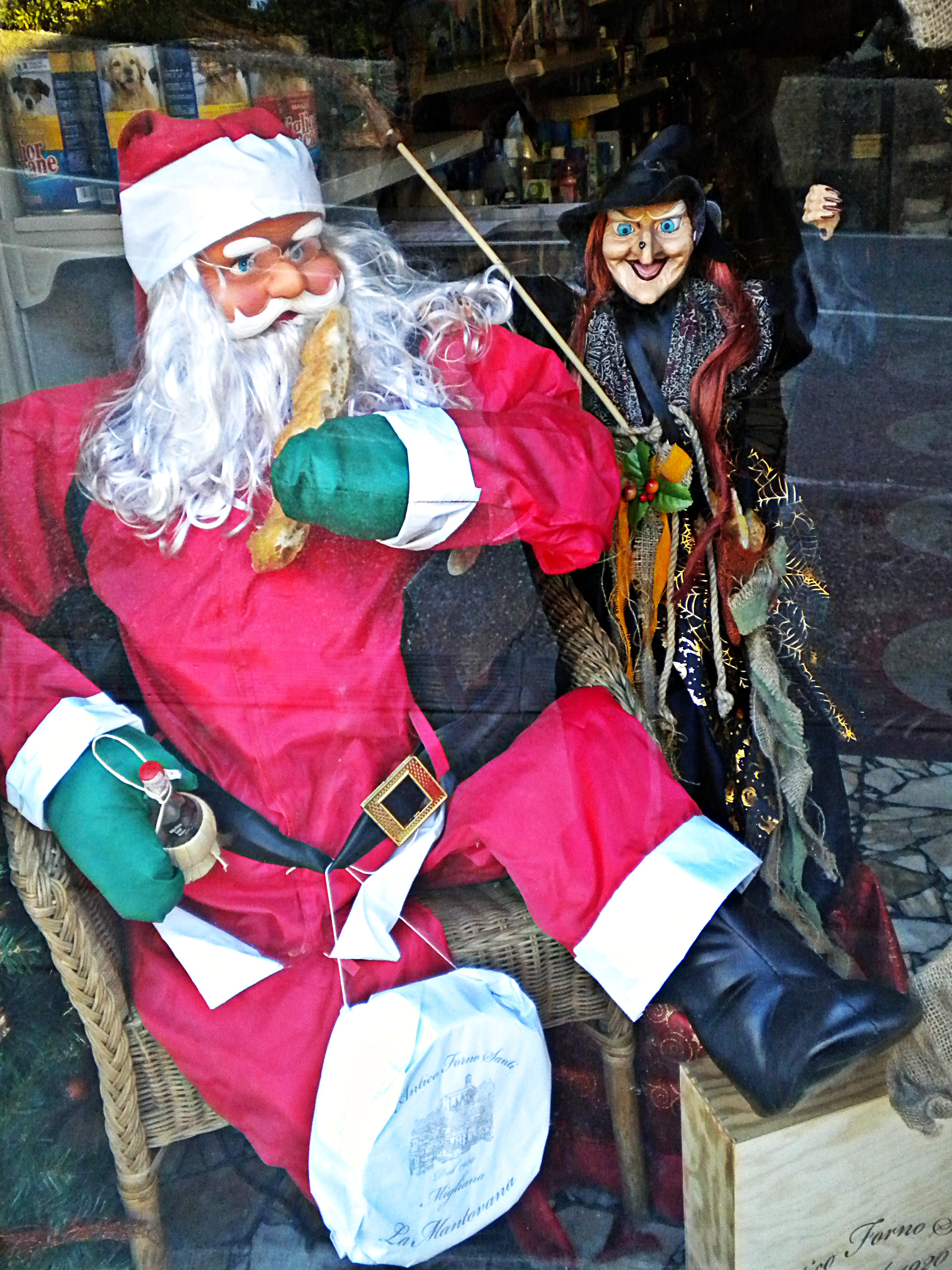 Santa Claus and the Epiphany with crusches and Migliana biscuits